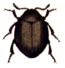 Oomorphus concolor, from Calwer's Käferbuch, Table 45, Picture 4. Taxonomy was updated to 2008, using mostly the sites Fauna Europaea and BioLib. Please contact Sarefo if the determination is wrong!